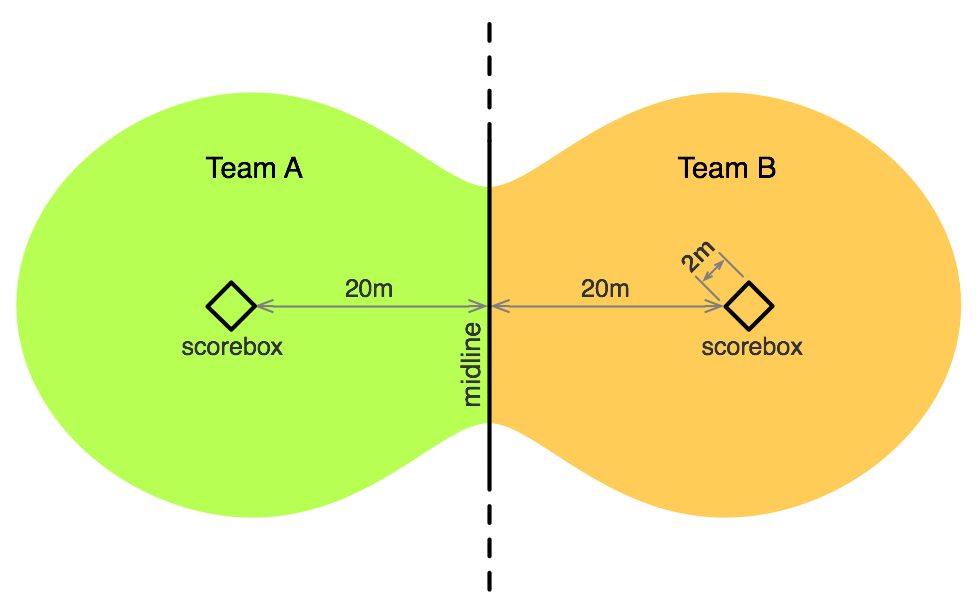 A diagram showing the field used when playing Schtick Disc.